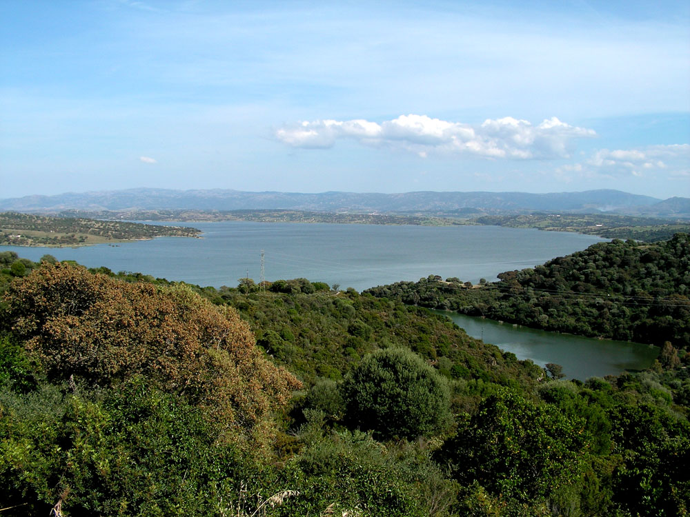 Lake Coghinas, province of Sassari and Olbia-Tempio, Sardinia